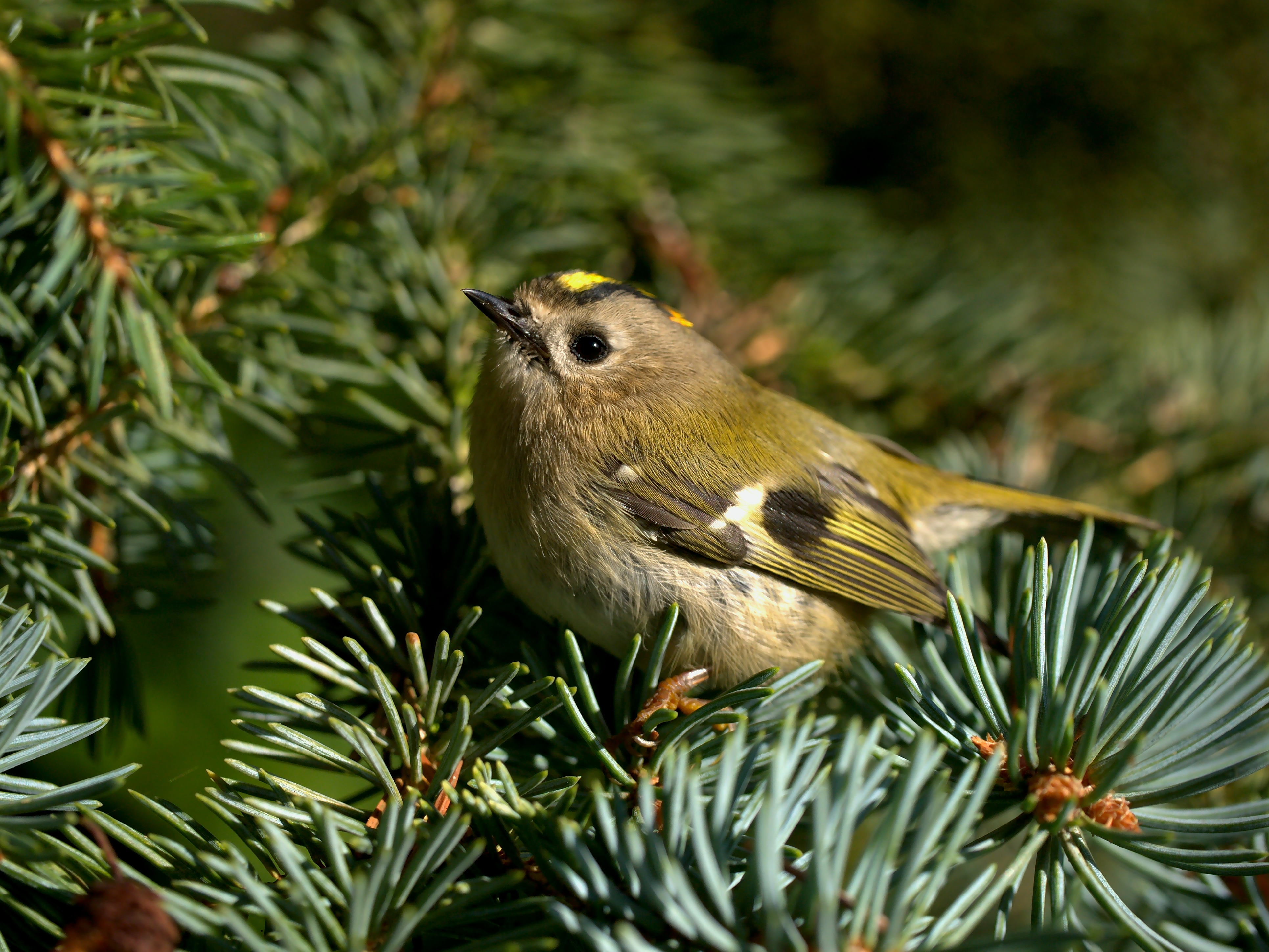 A Goldcrest in Auderghem, Brussels, Belgium.